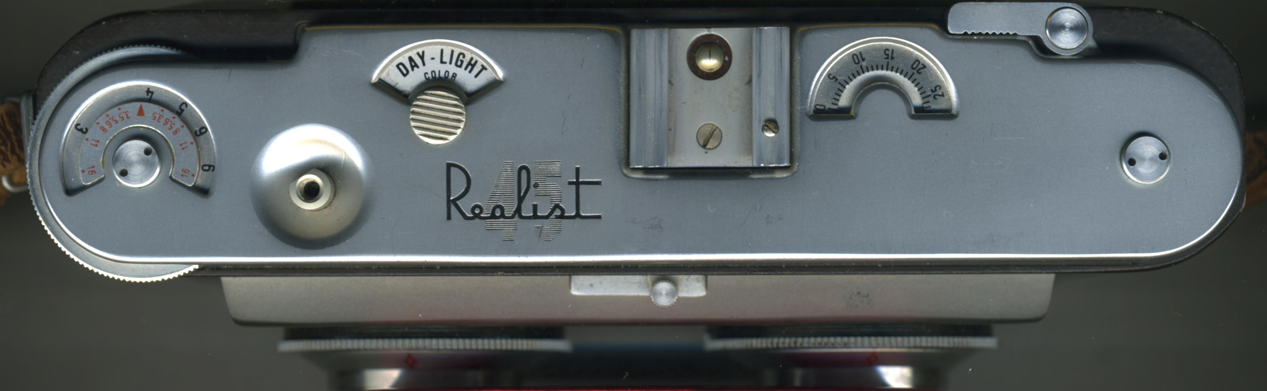 The Realist 45 stereo camera. Viewed from the top.